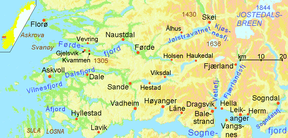 Førdefjorden and Jølstravatnet with its branch "Kjøsnesfjorden" in Norway and their geographical relation to the Sognefjorden